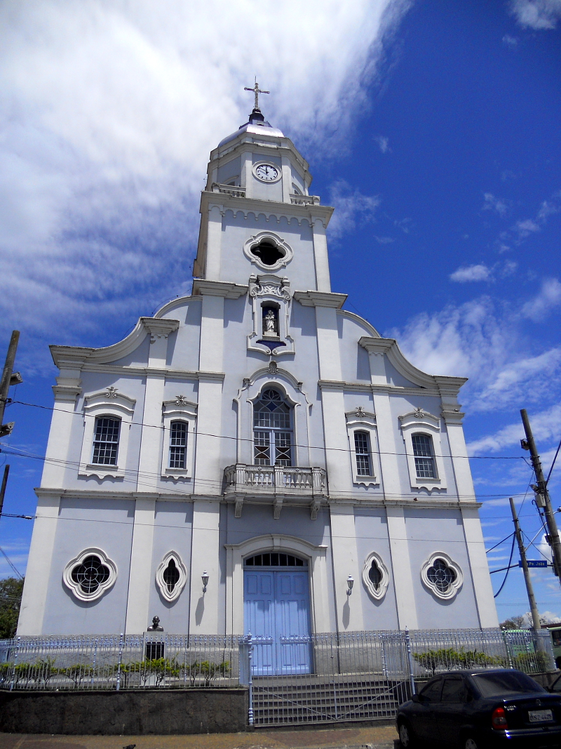 Front of the Matriz Church of São José dos Campos, São Paulo, Brazil.